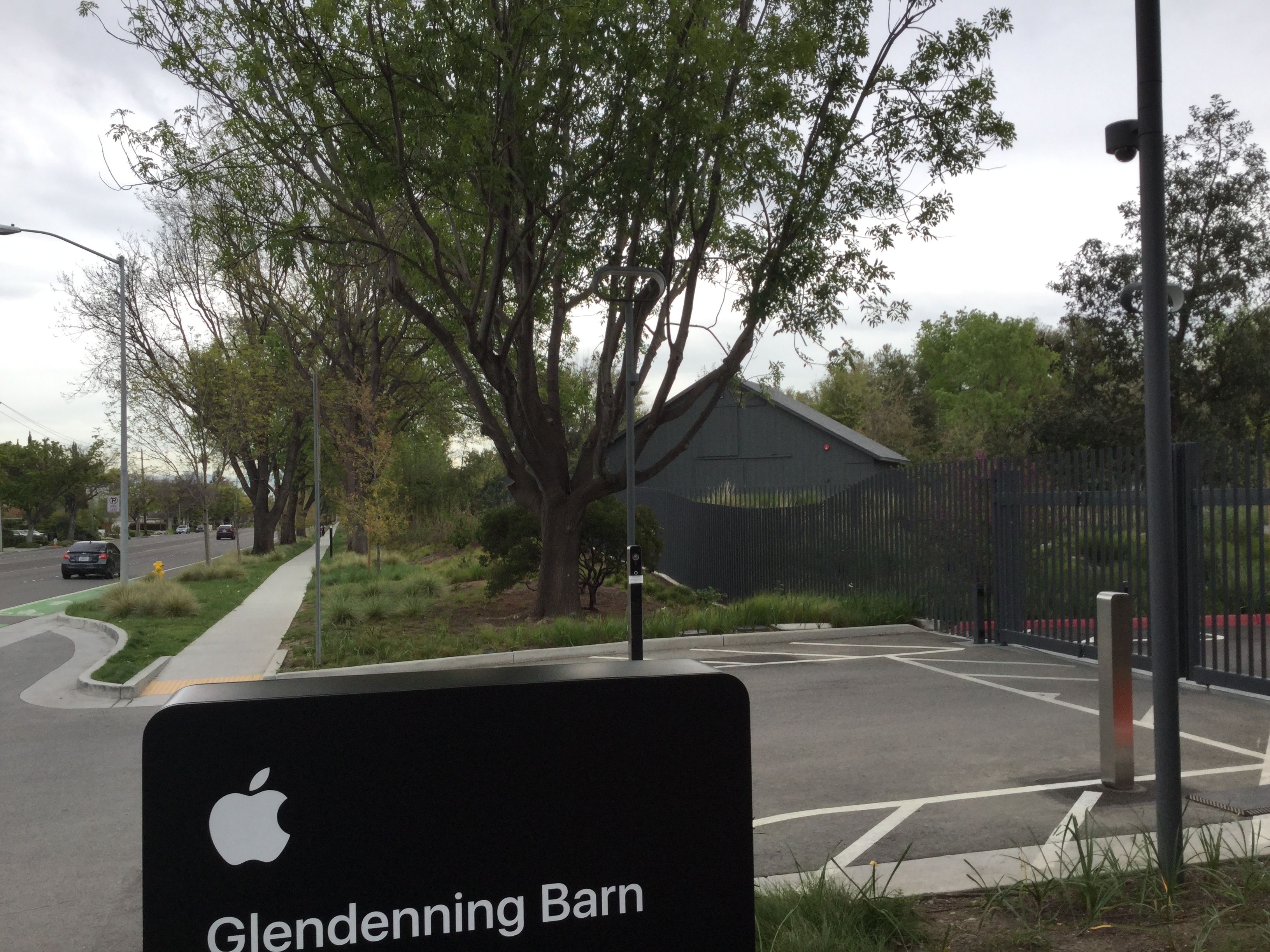 Glendenning Barn, at Apple Park in Cupertino, California